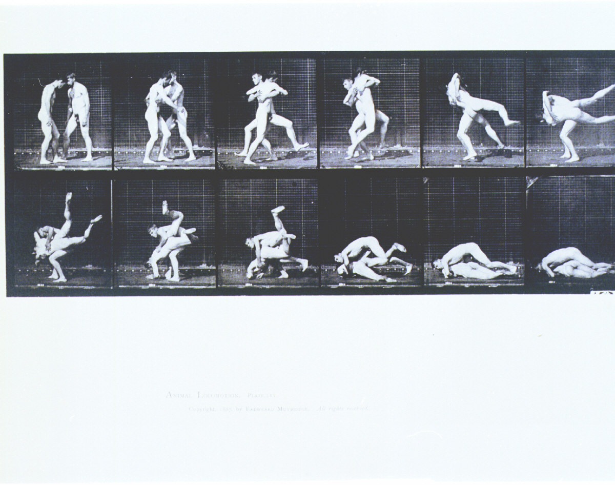 'Wrestling; Graeco-Roman' 1887, Eadweard Muybridge (1830-1904); Collotype process; 'Animal Locomotion' collection